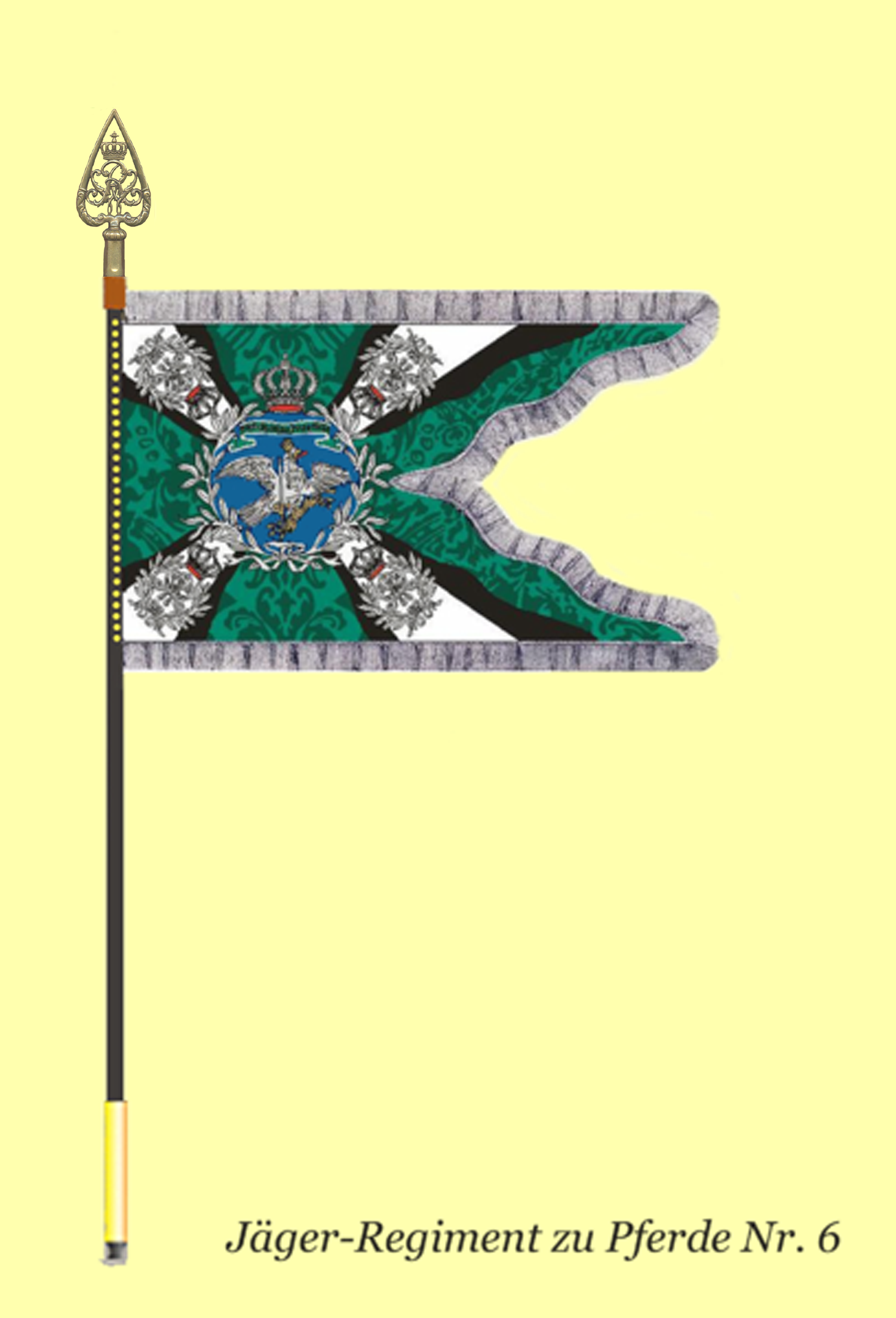 Colors of the royal prussian 6th Regiment of Mounted Rifles